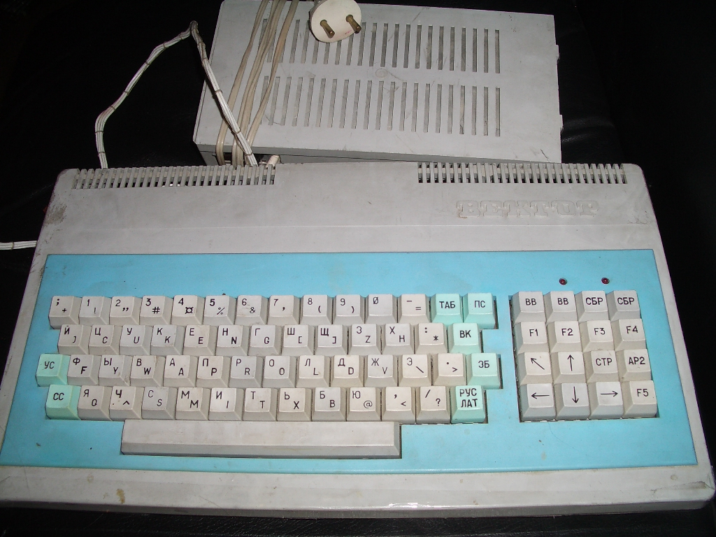 "Vector-Start 1200" Home Computer